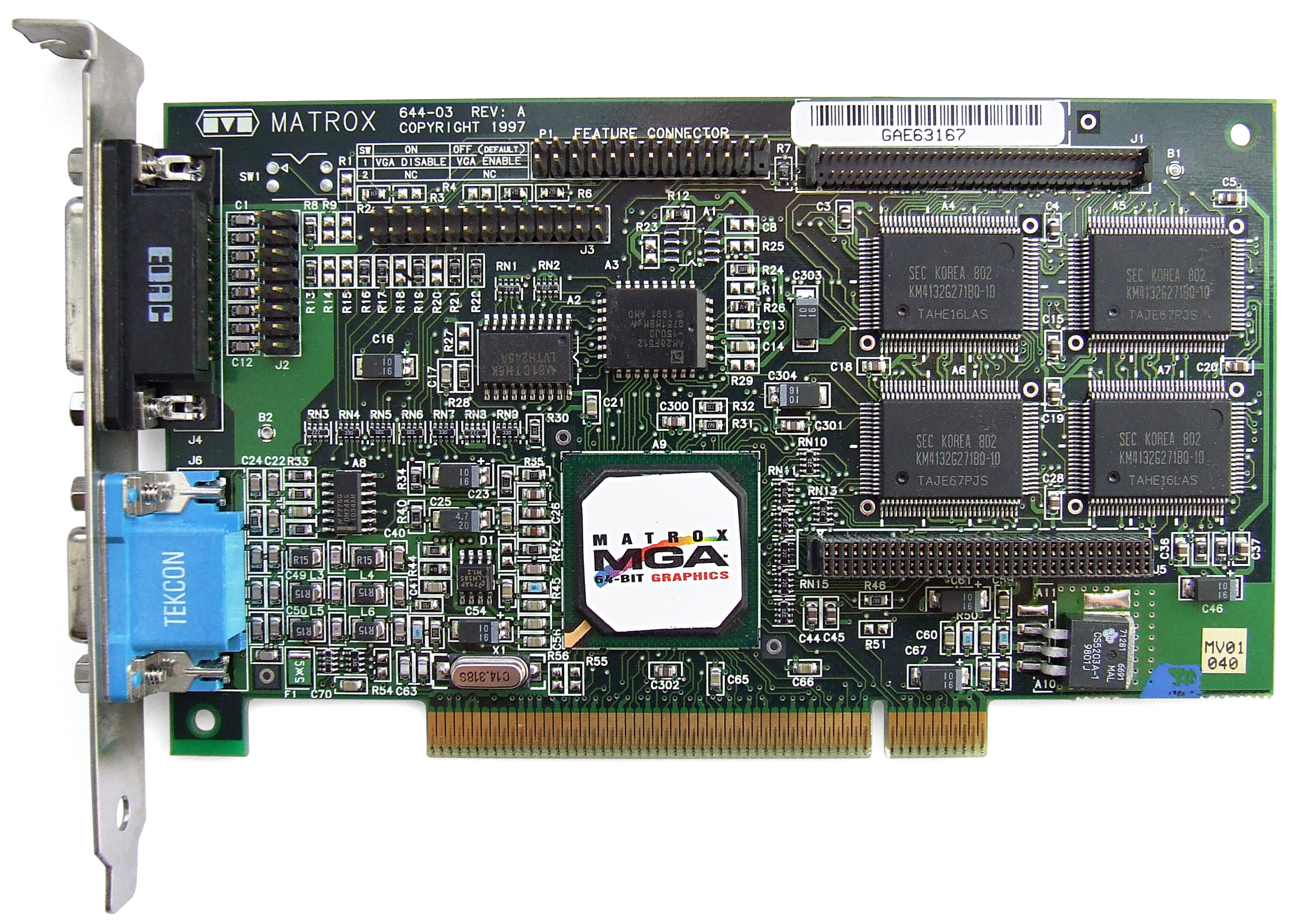 Matrox Mystique 220 Business (MY220P/BIZ4I) video card, PCB revision 644-03A. It is based on the MGA-1164SG graphics processing unit and equipped with 4 MB of SGRAM. This retail version of the Mystique was distinguished by a comprehensive software bundle, though the actual hardware is identical.